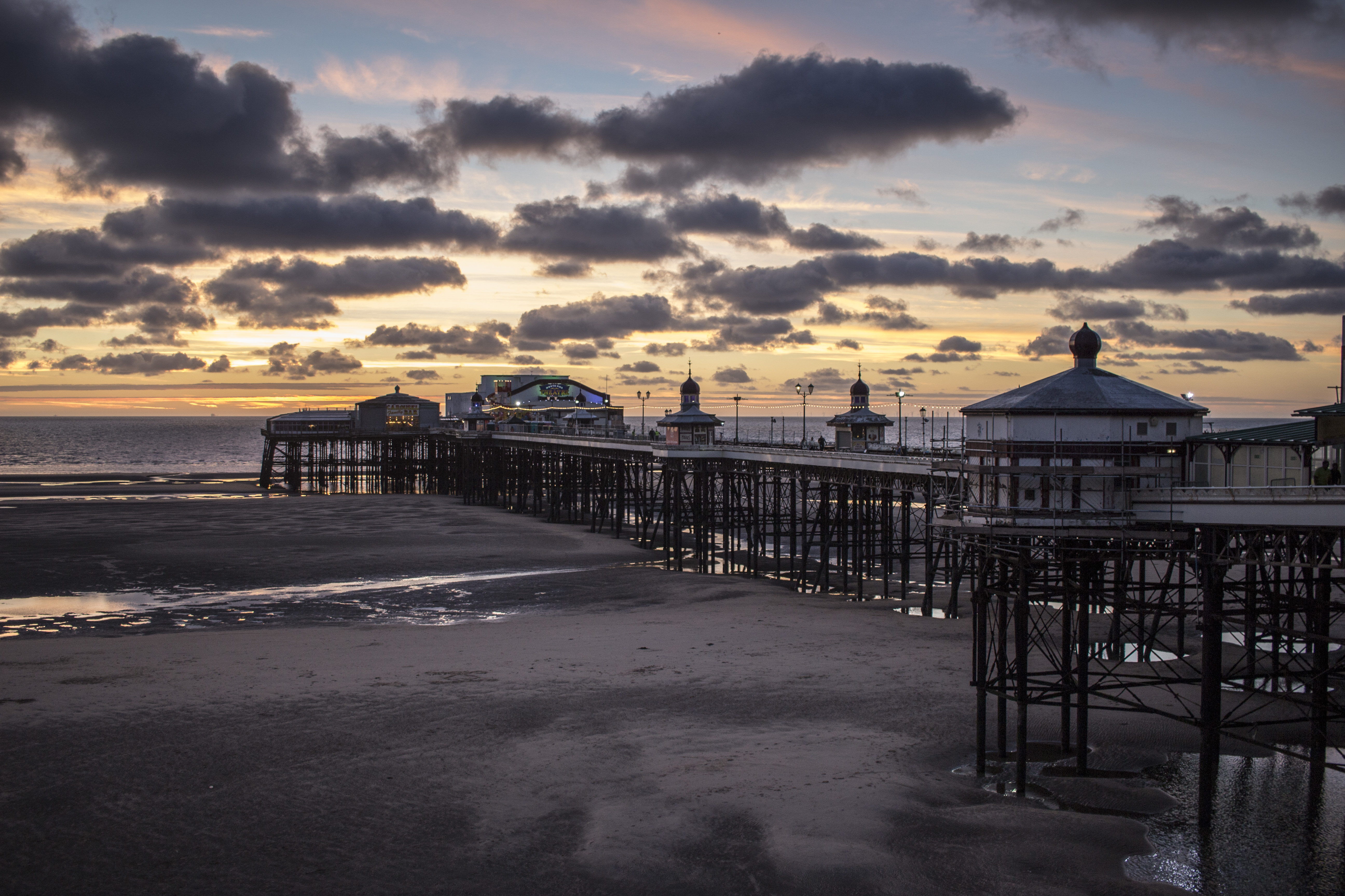 North Pier, Blackpool Wikidata has entry Q3177822 with data related to this item.